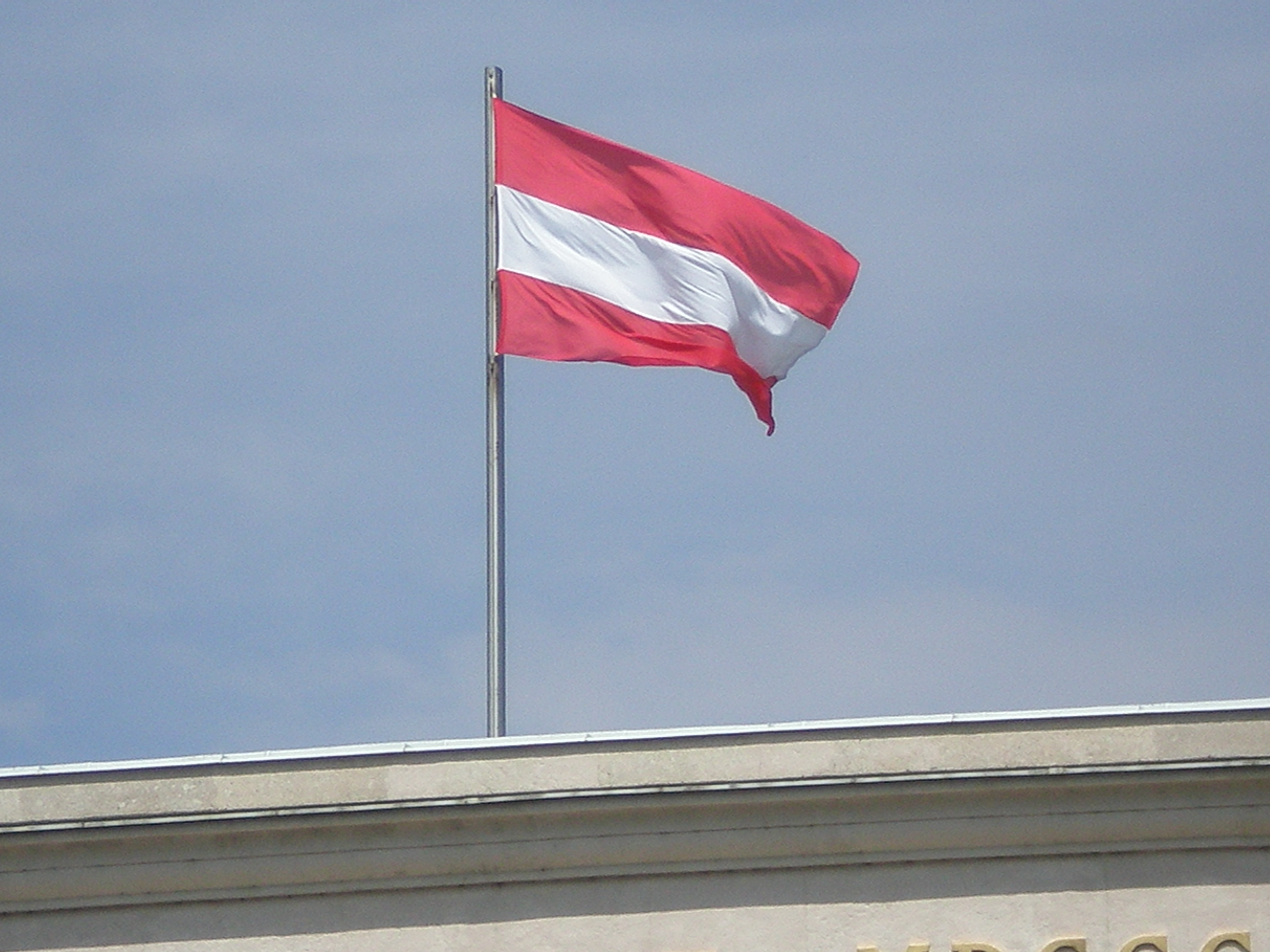 Austrian flag, Hofburg Palace, Vienna